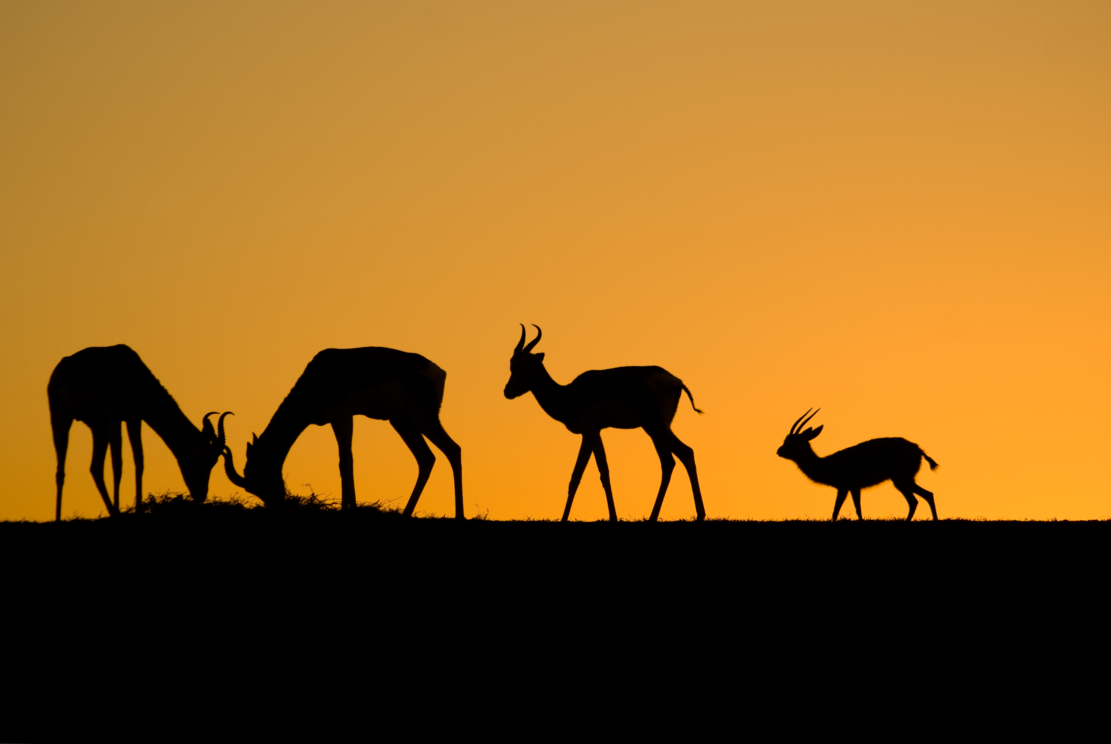 As the sun fades away you get to see a real beauty, you get to see some gazelles, you can't actually see any details but their silhouettes glazing within the sun rays. Pure epic wonder in such view, you can feel the beauty through the sunset's colors reflected on the gazelles.